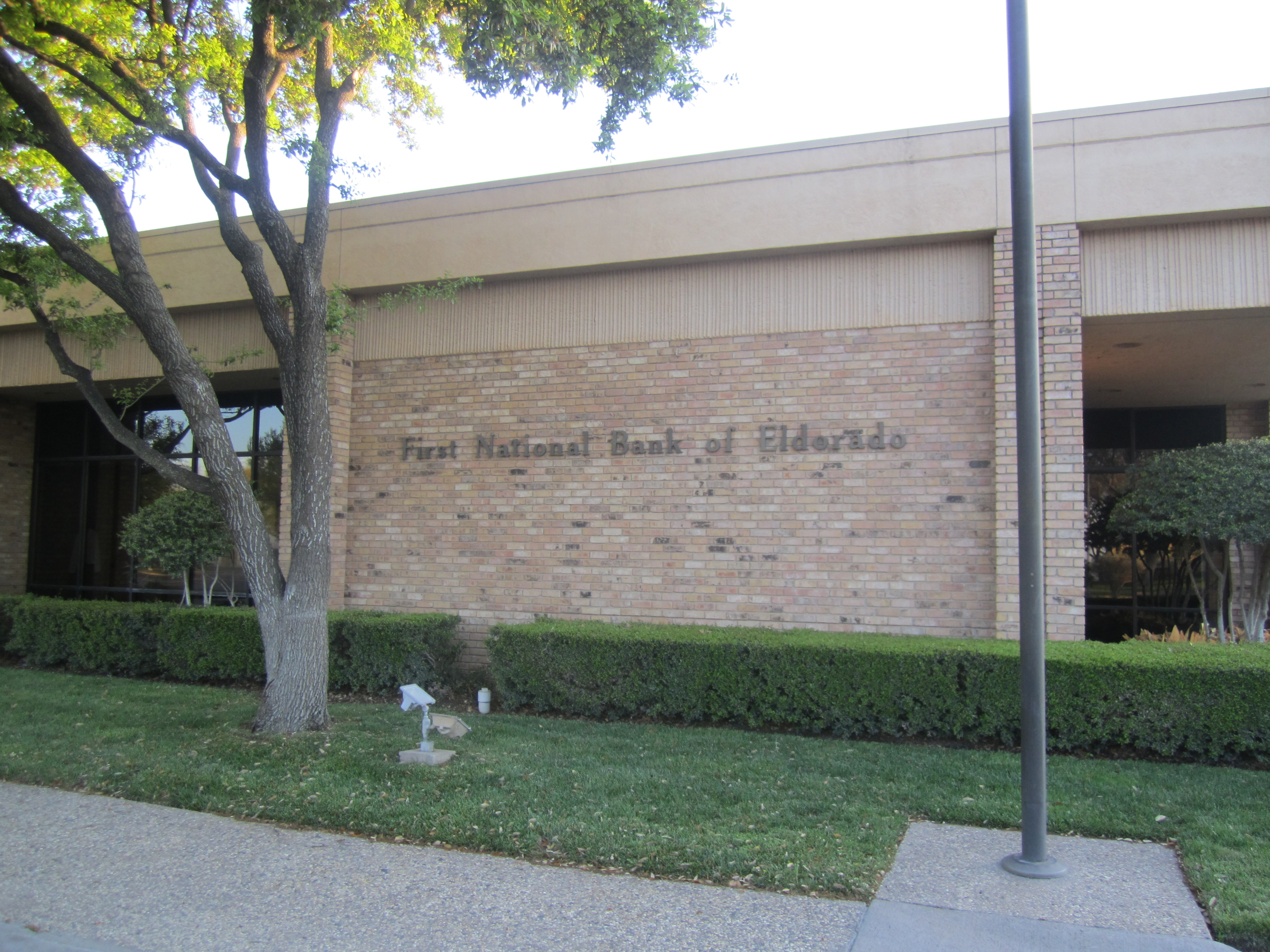 I took photo with Canon camera in Eldorado, TX.